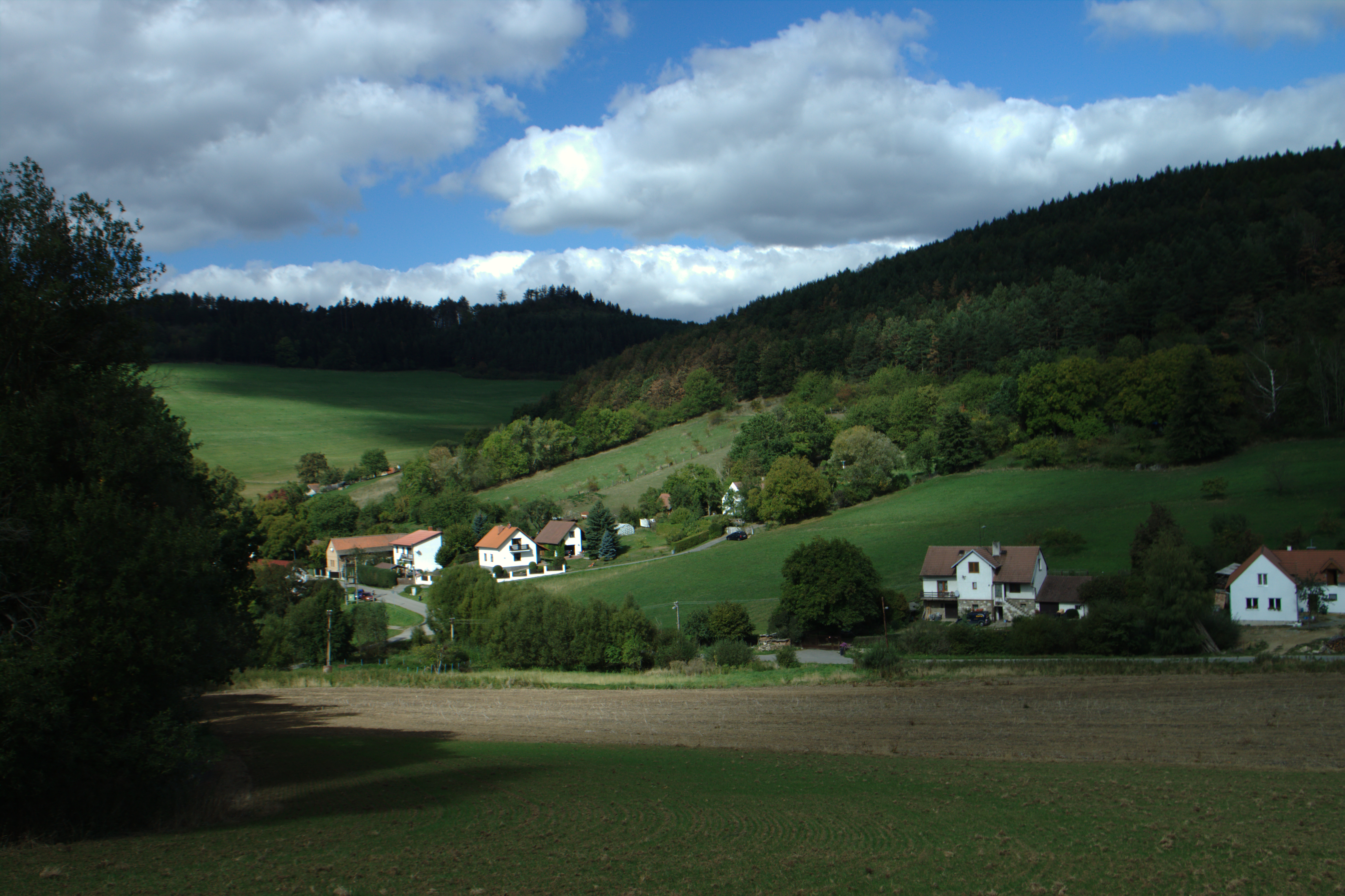 View of the village of Mezihoří from southeast, Central Bohemian Region, CZ